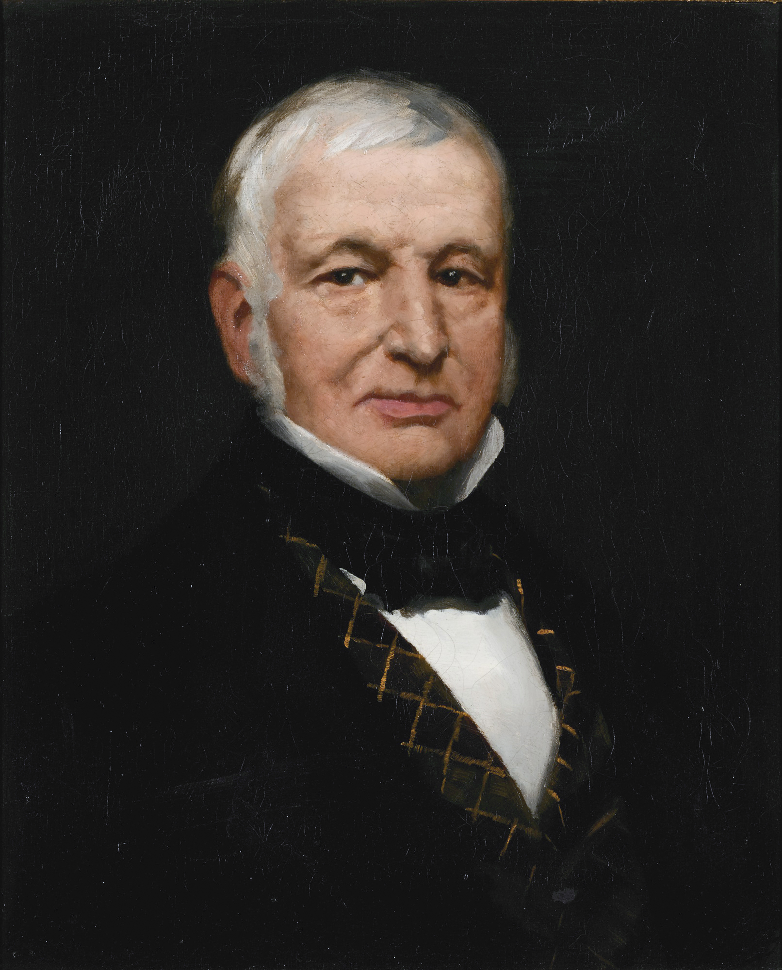 Jonathan Mason, Senator from Massachusetts oil on canvas 55.9 x 45.7 cm circa 1850